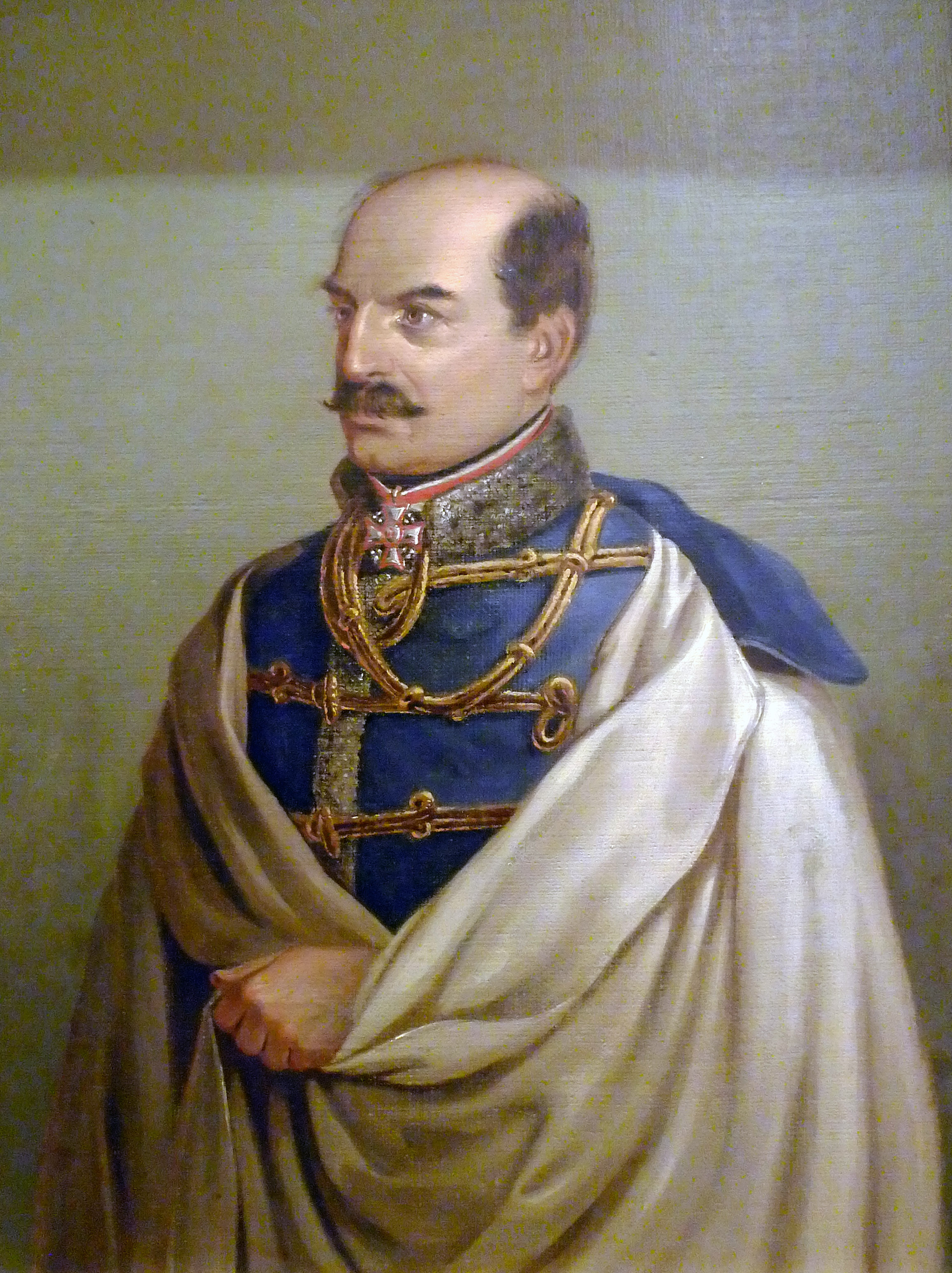 Painting of Josip Jelačić as Austro-Hungarian Feldzeugmeister in field uniform.